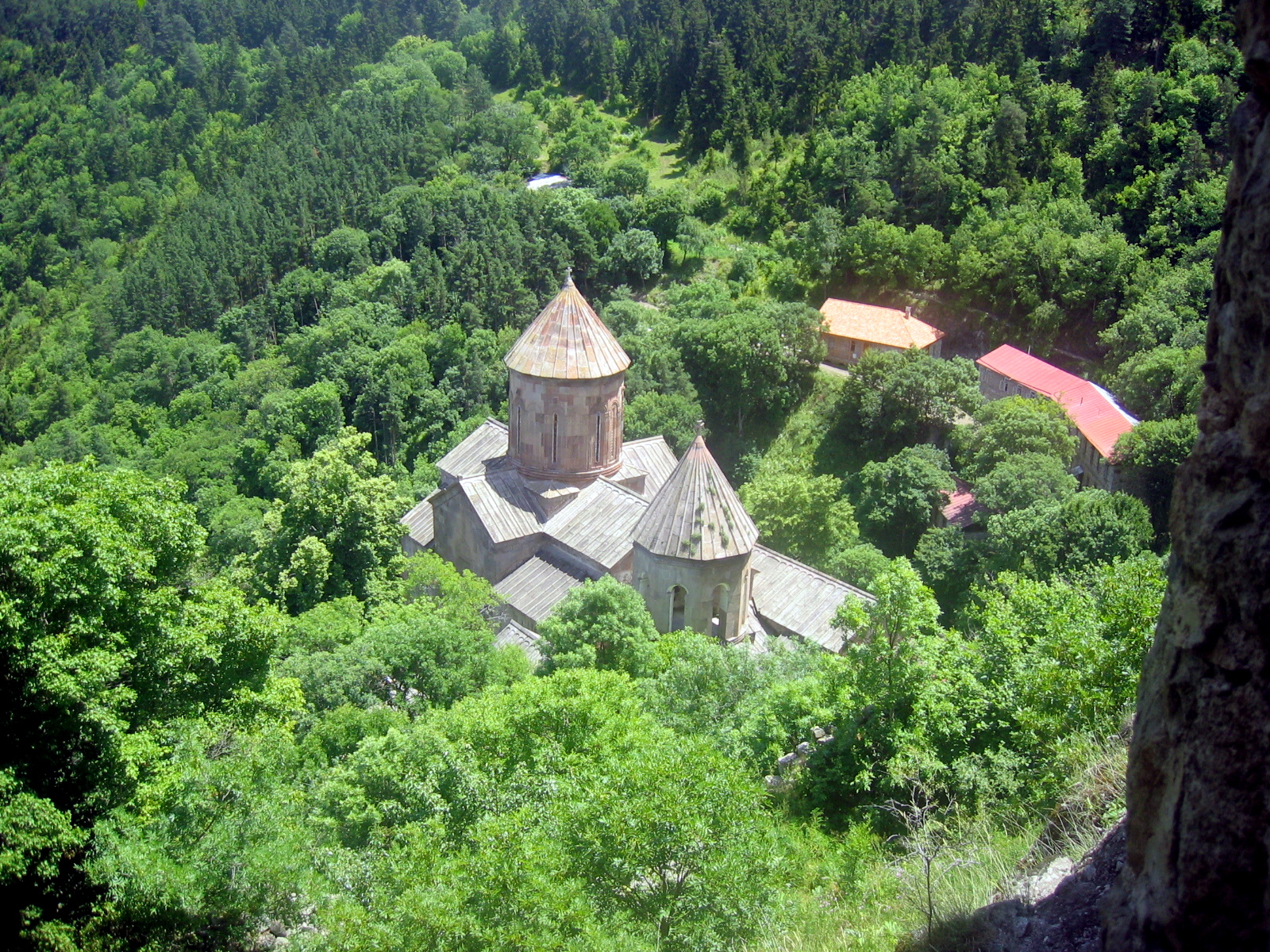 Sapara Monastery, Akhaltsikhe.